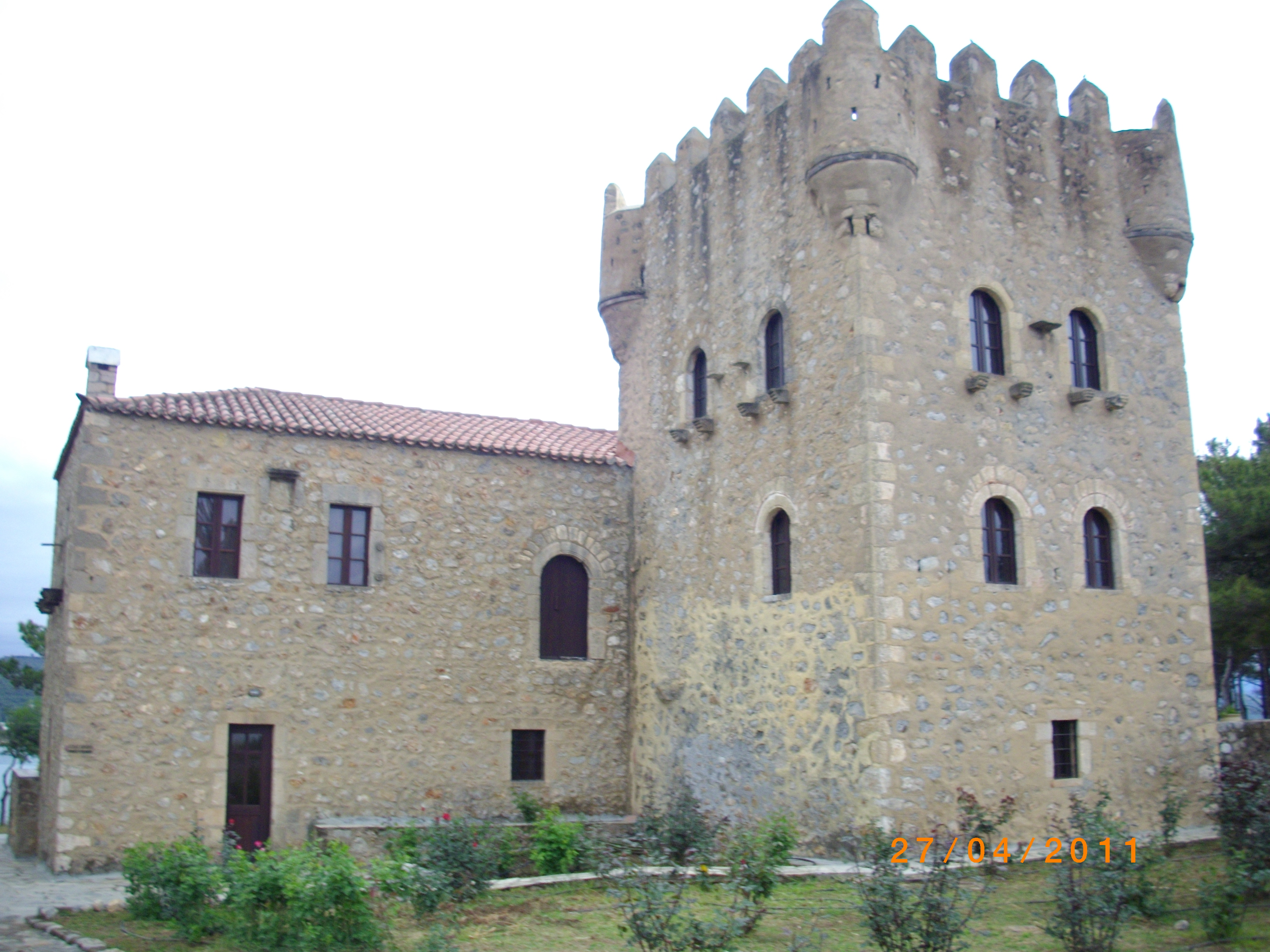 Kranai island, Gytheio, Lakonia, Greece